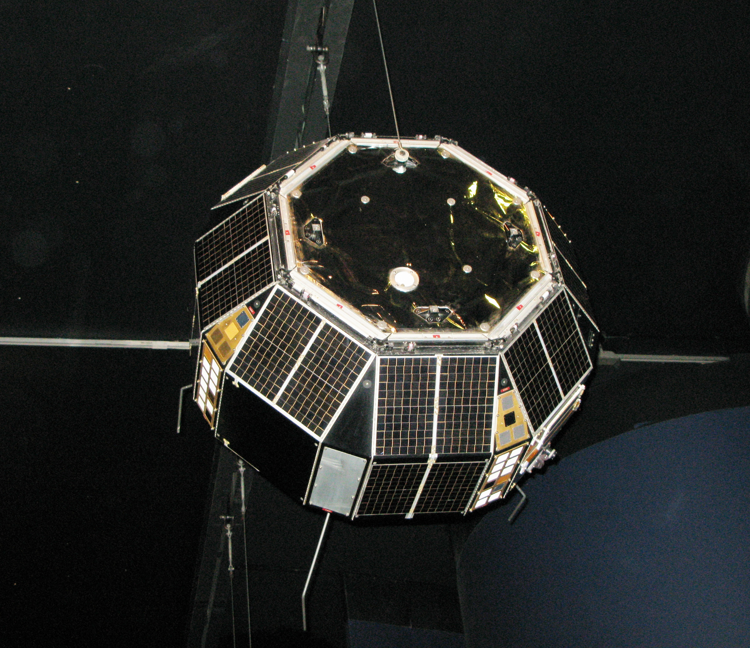 Photo of a model of the Prospero X-3 satellite in London's Science Museum.